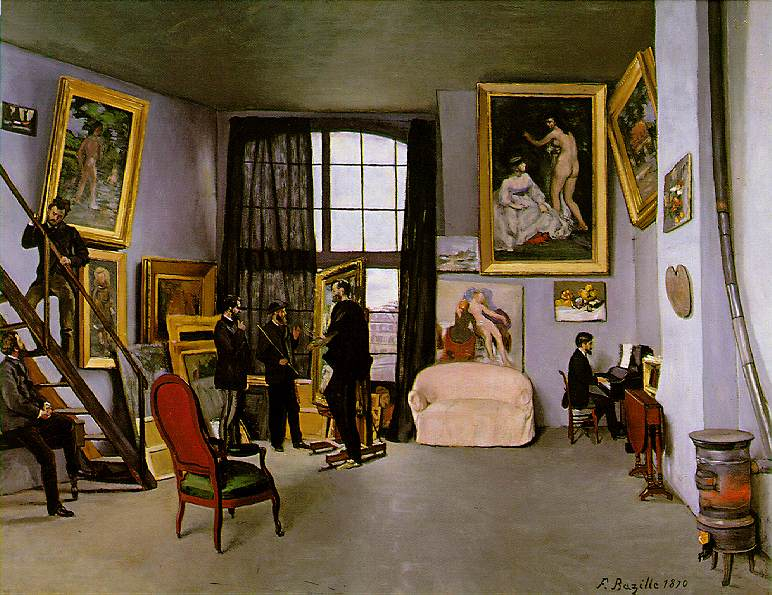 The studio of the artist in Paris, rue de La Condamine; Astruc or Monet at the easel; Manet and Bazille; Edmond Maitre at the piano.